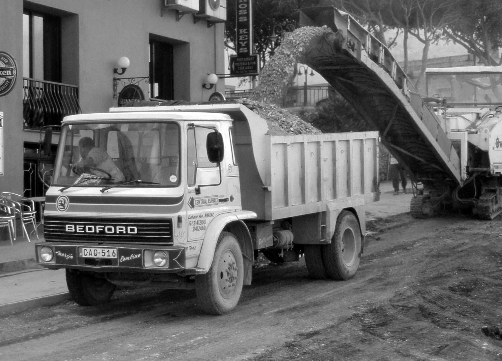 Ancient slide film producing purple effect hence converted into black and white. A Wirtgen of Lincoln Bedford TL planer is operating in the main road out of Mellieha,requiring buses and all other traffic to be diverted.